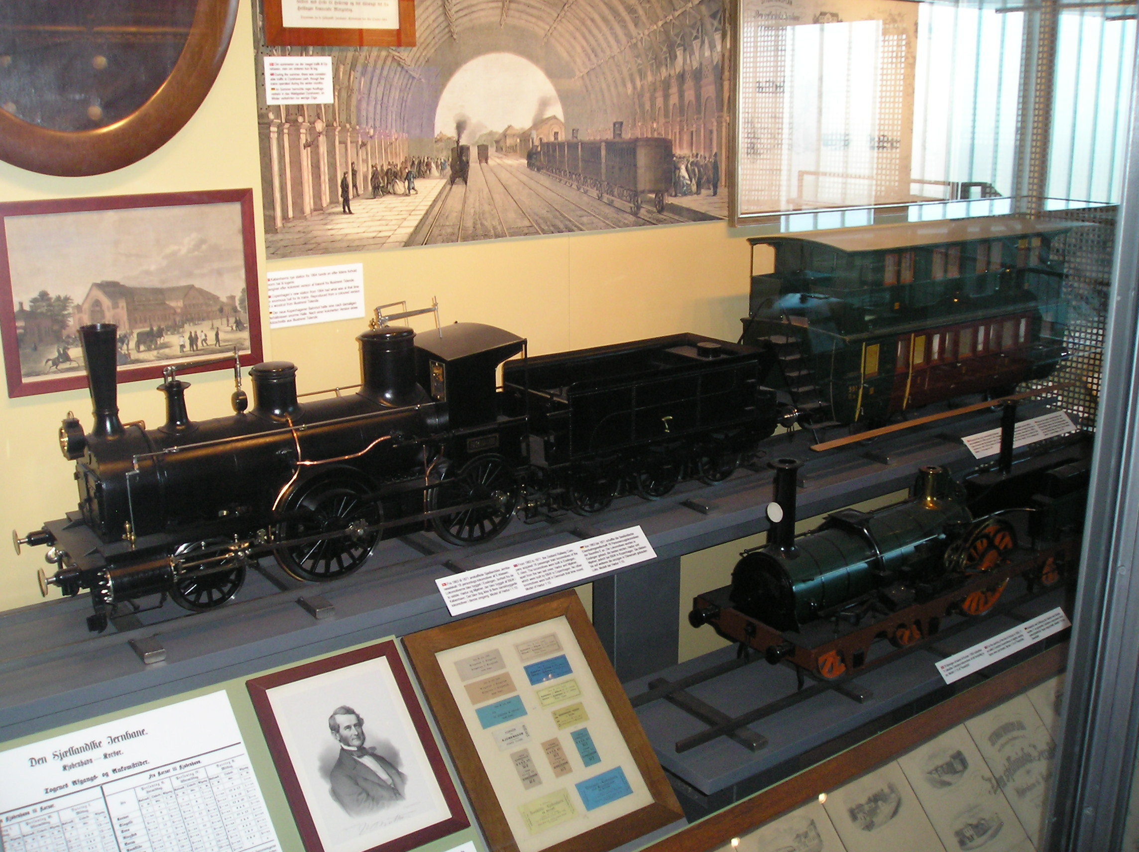 Model of the Danish steam locomotive Hødur in Danmarks Jernbanemuseum.